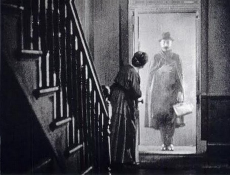 Marie Ault & Ivor Novello still of the 1927 film The Lodger A Story of the London Fog, director: Alfred Hitchcock